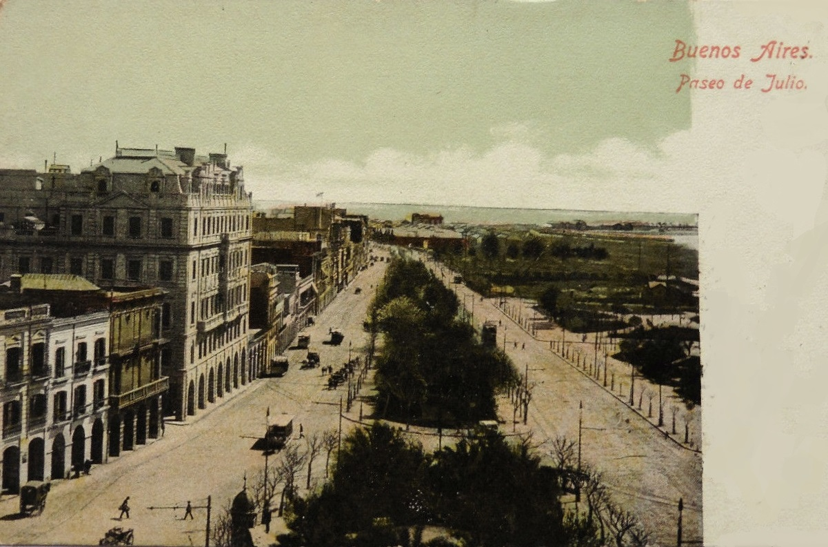 View of Buenos Aires' Paseo de Julio — now Avenida Leandro N. Alem — at the turn of the 20th century. Postcard posted in 1908.